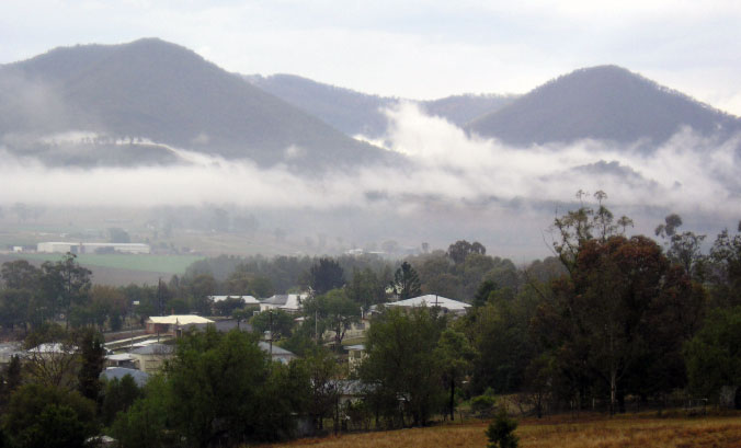 Mist in the hills to the North East of Killarney, Queensland, Australia.